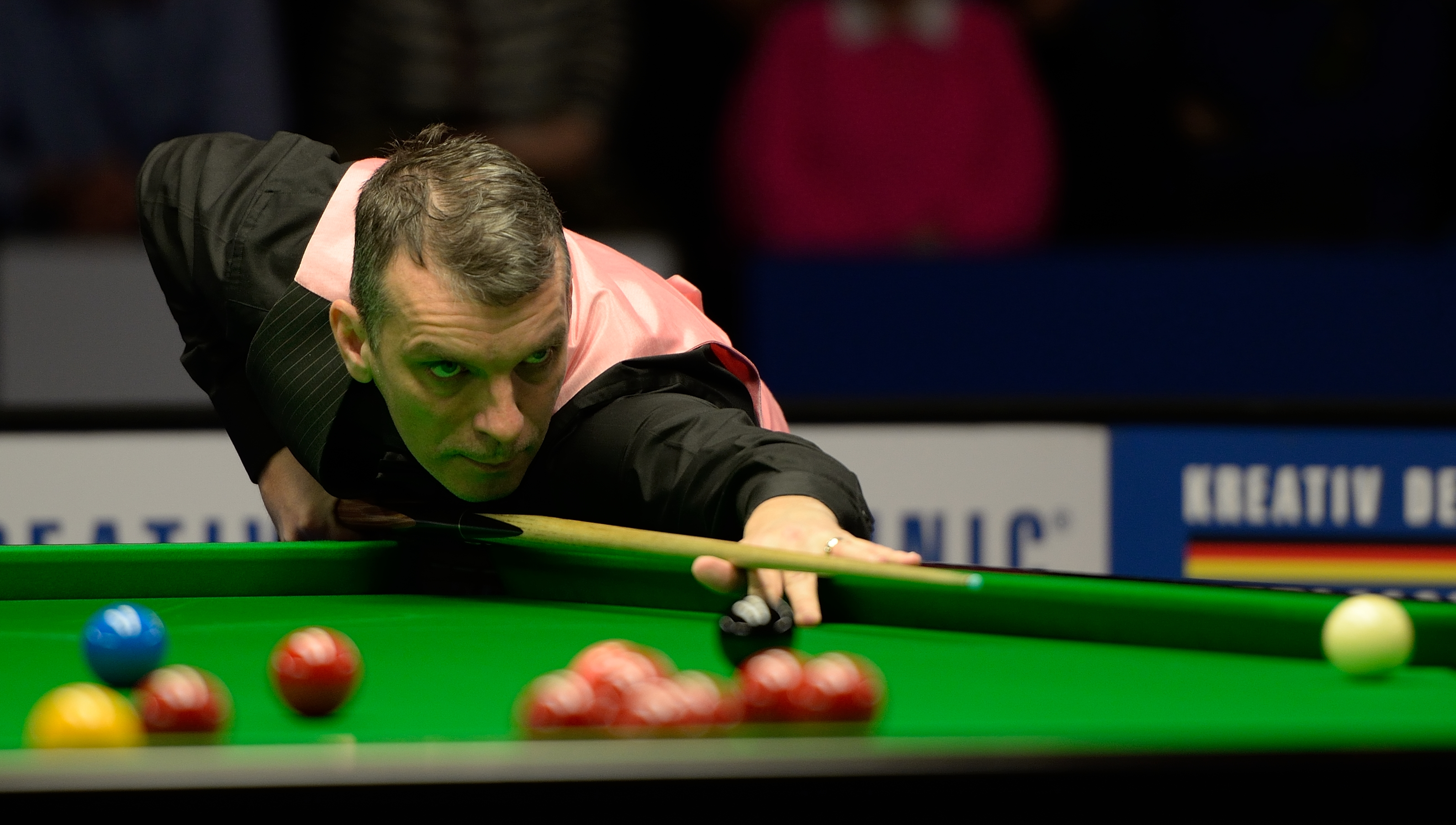 Picture taken in Berlin during the Snooker German Masters in 2015. Mark Davis.